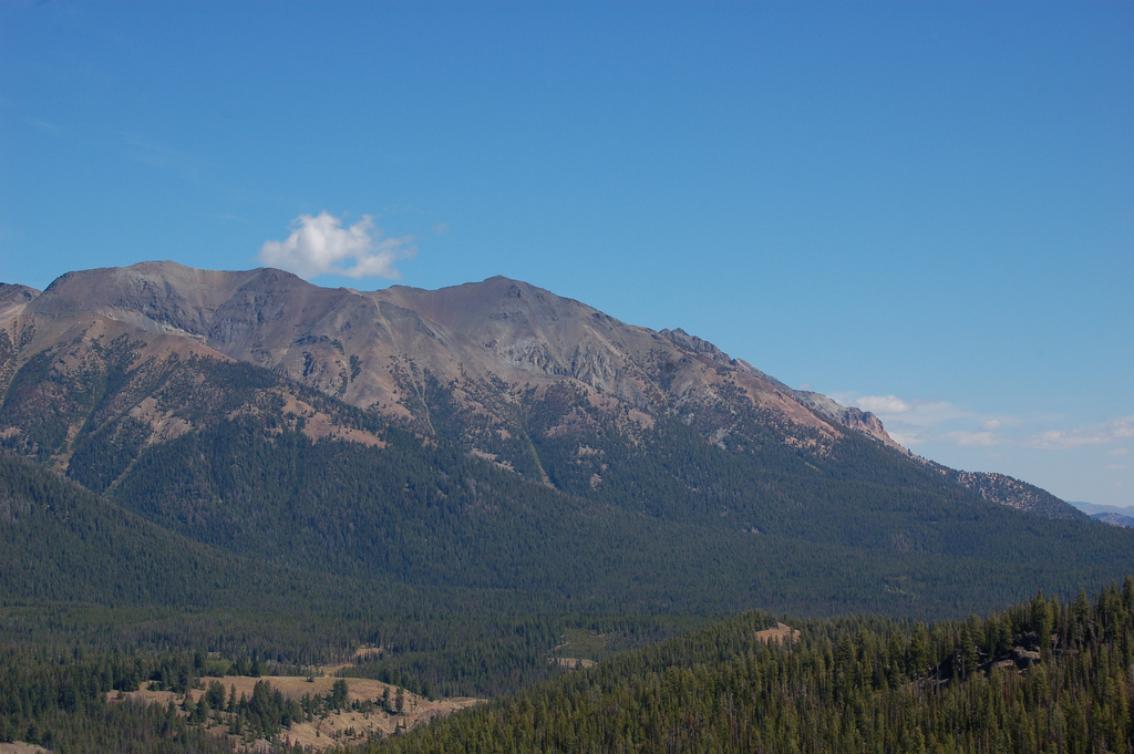 The Boulder Mountains viewed from Idaho State Highway 75 on Galena Summit in Sawtooth National Recreation Area, Idaho